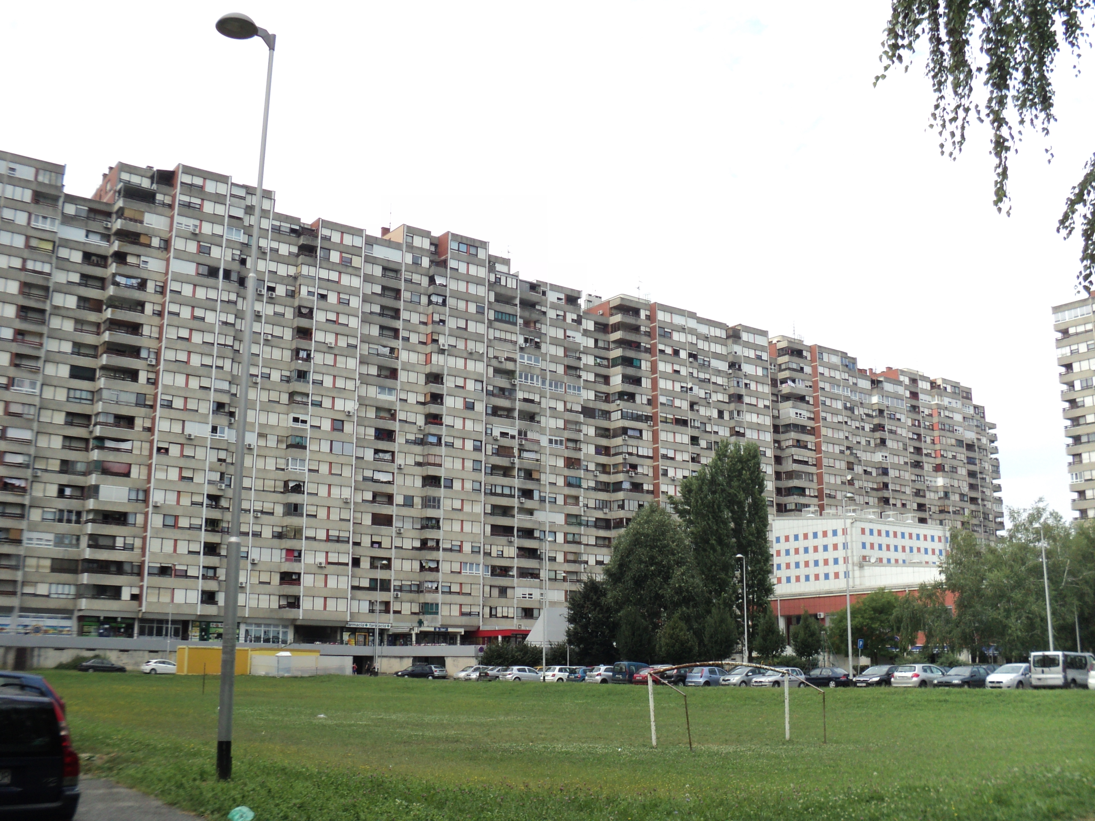 General view at the eastern side of the Mamutica building, Novi Zagreb.